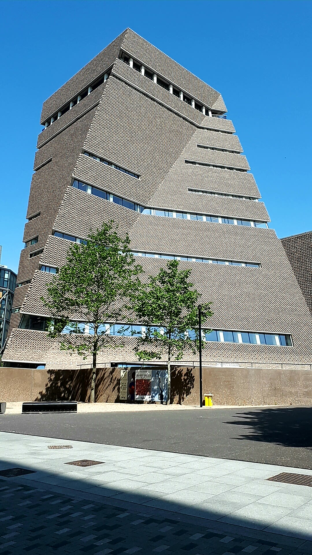 The Blatnavik house belonging to Tate Modern in 2017